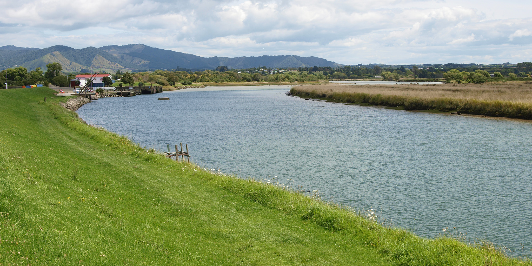 Otara River, Opotiki, Bay of Plenty, New Zealand.